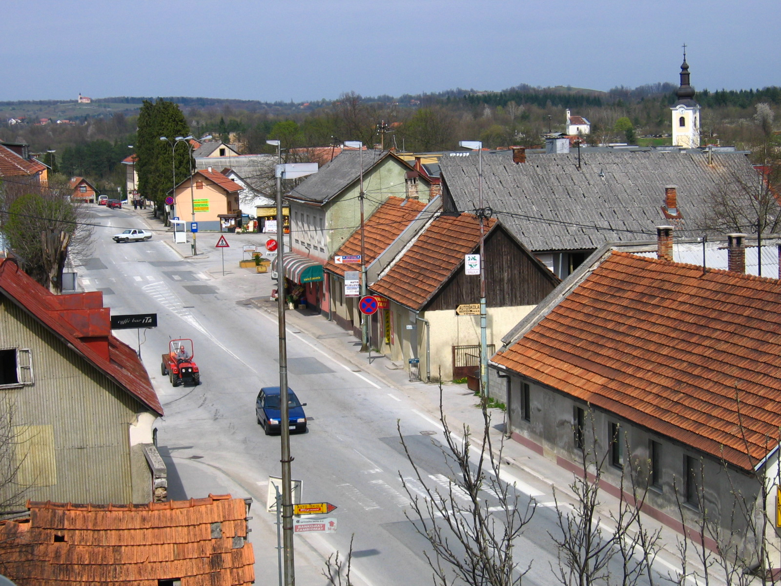 Slunj, Croatia. Town center. Bird view from nearby building. Picture taken in April 2006.